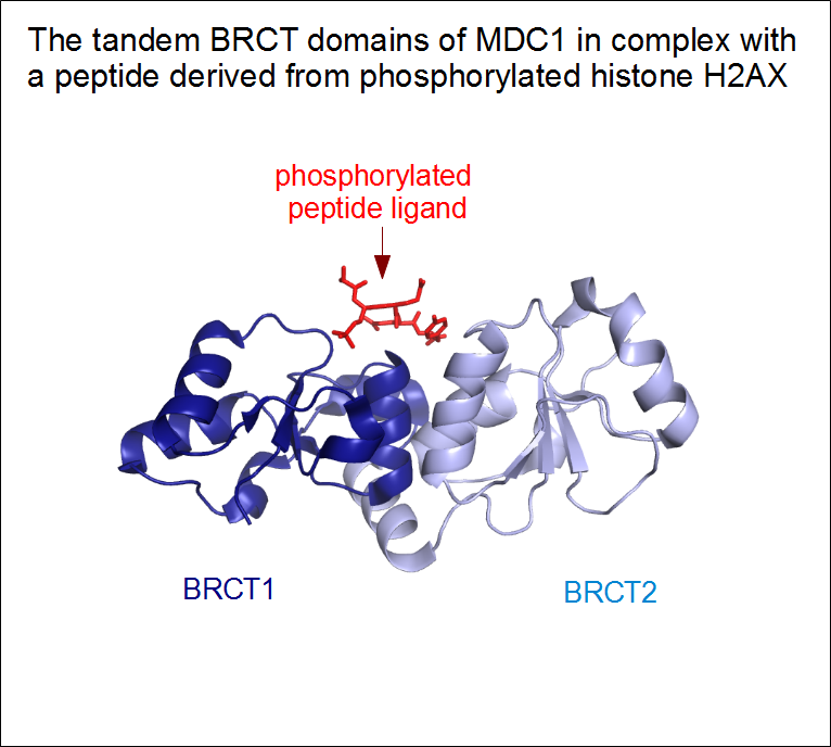 Structure of the BRCT repeats of the MDC1 protein in complex with a dedicated ligand: a peptide from the phosphorylated histone H2AX